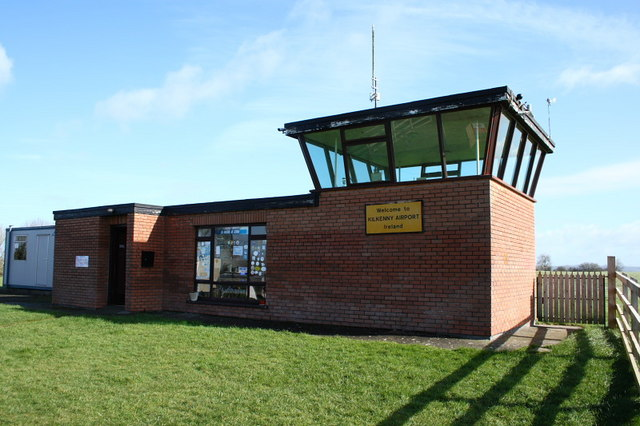 Control Tower at Kilkenny Airfield